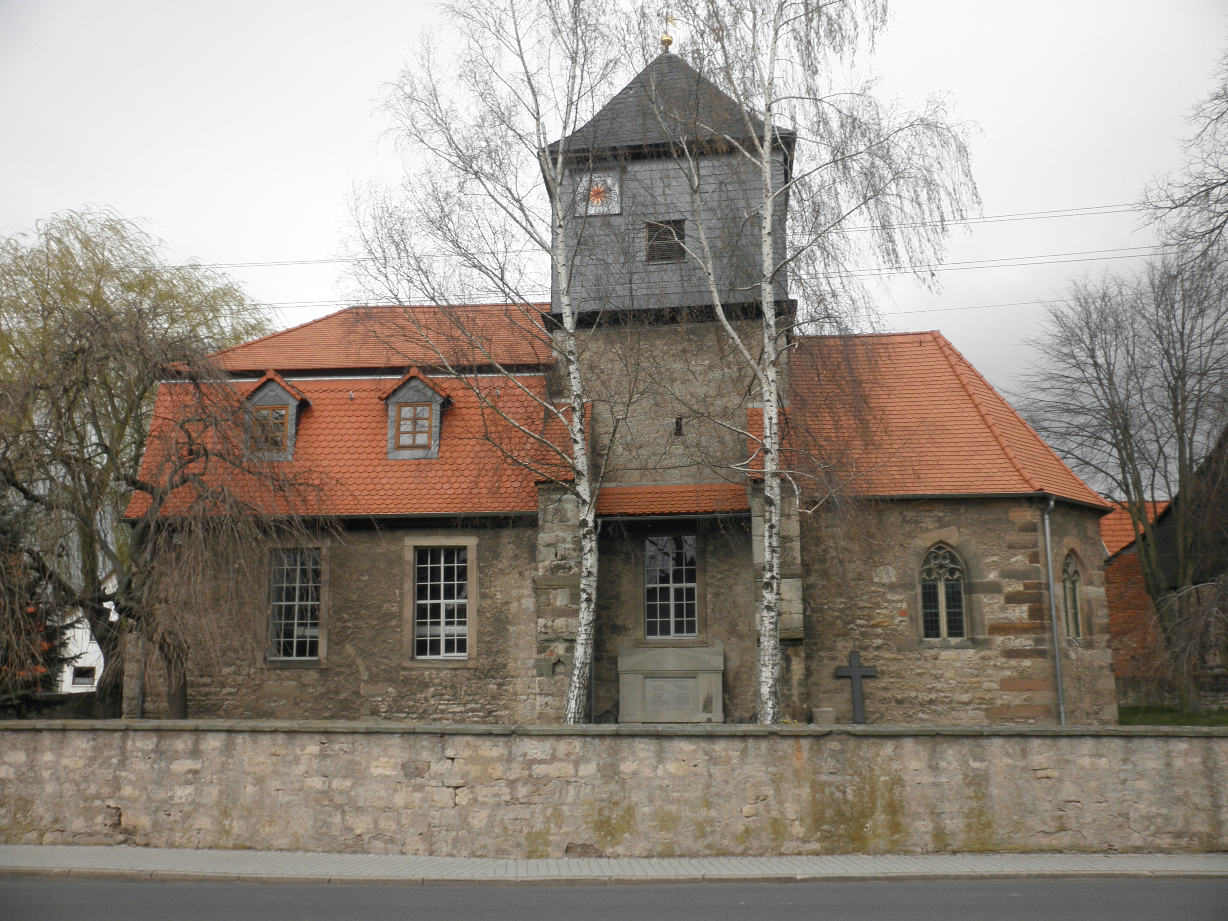 Church in Possendorf (Weimar) in Thuringia